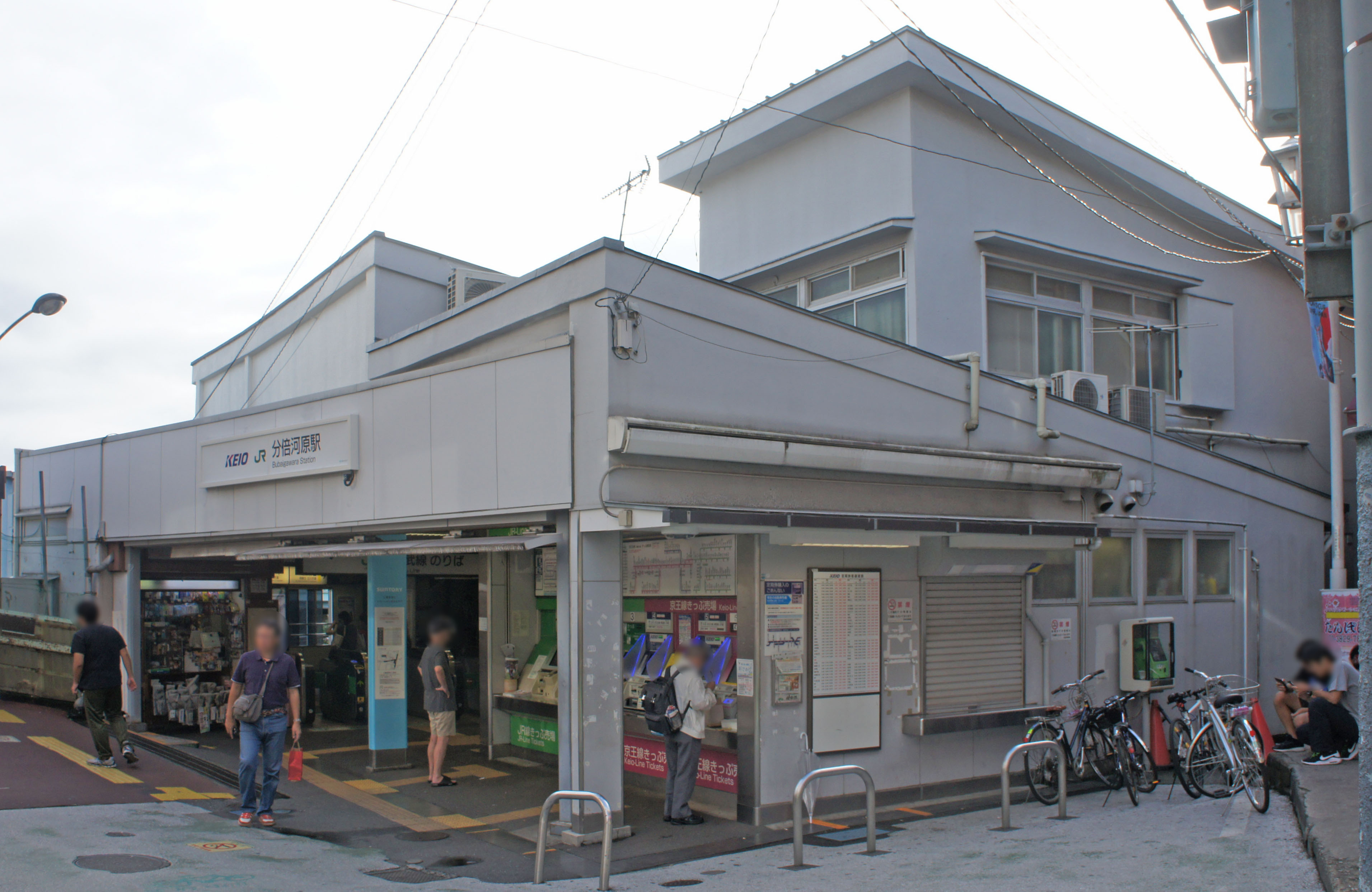 Platform of JR Nambu-Line Bubaigawara Station